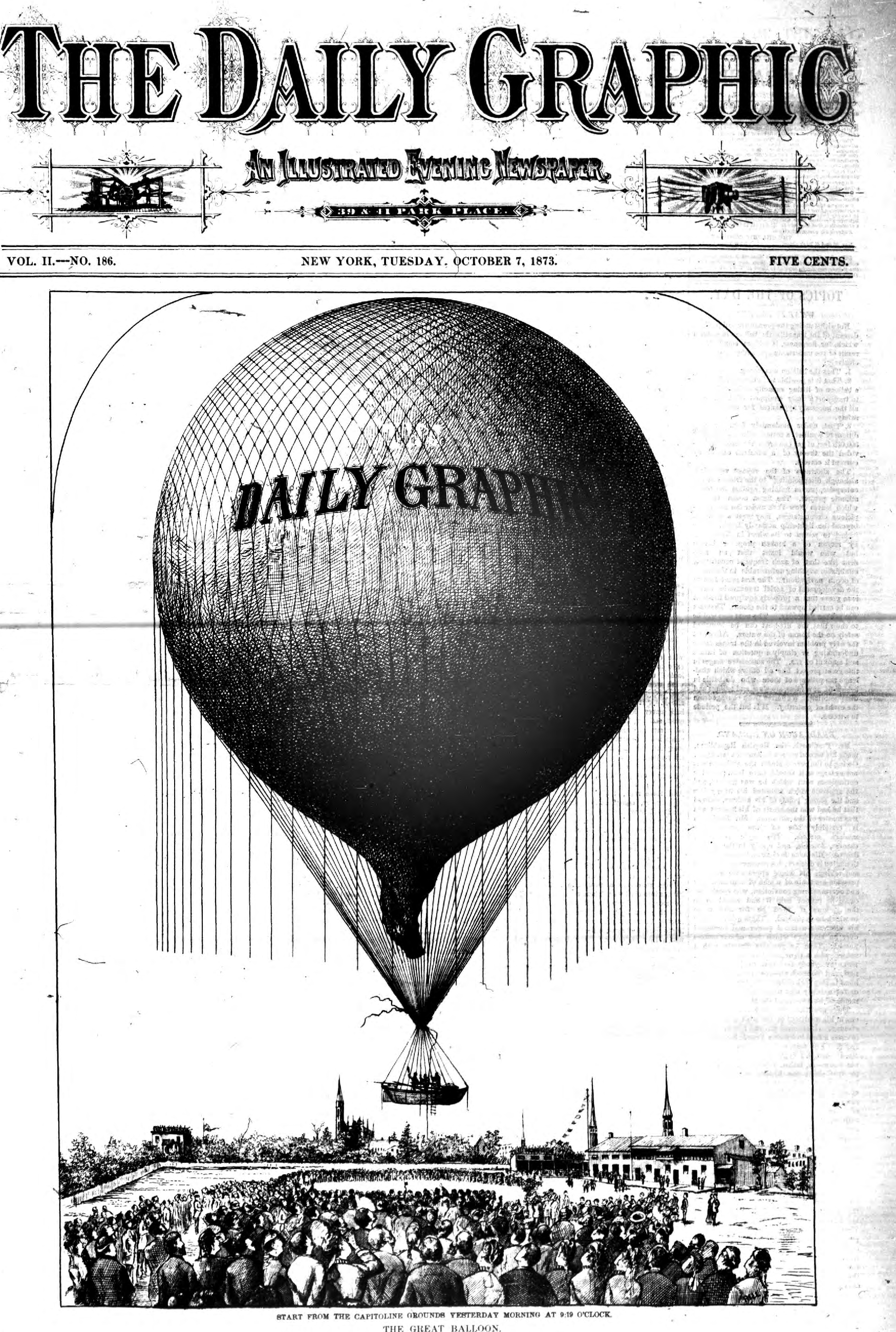 Front page of the Daily Graphic (New York), 7 October, 1873, showing the ascent of Washington Donaldson's unsuccessful attempt sponsored by the newspaper to cross the Atlantic.